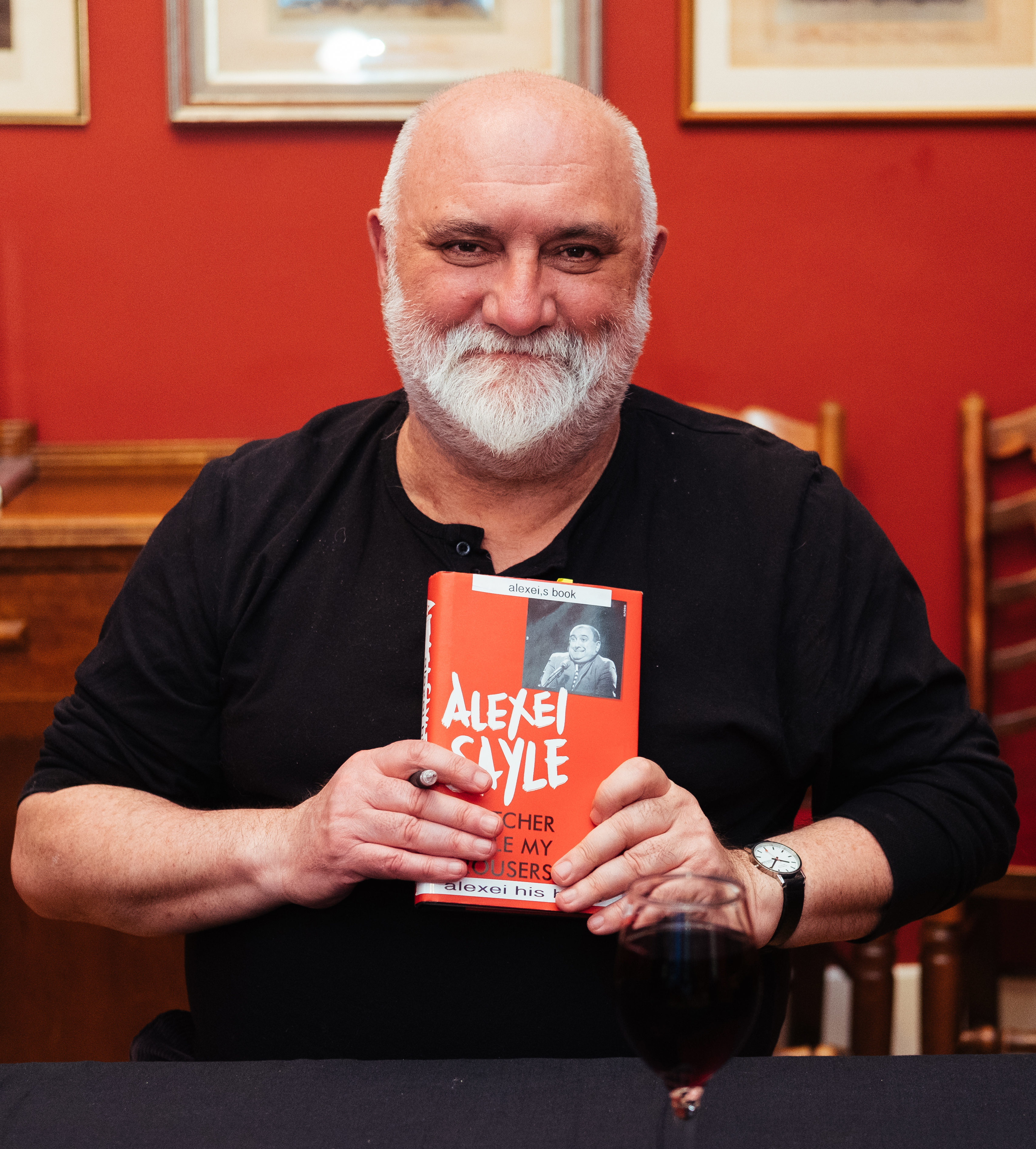 Alexei Sayle with his book Thatcher Stole My Trousers at a signing event during the Cambridge Literary Festival in the Cambridge University Union building, 2016